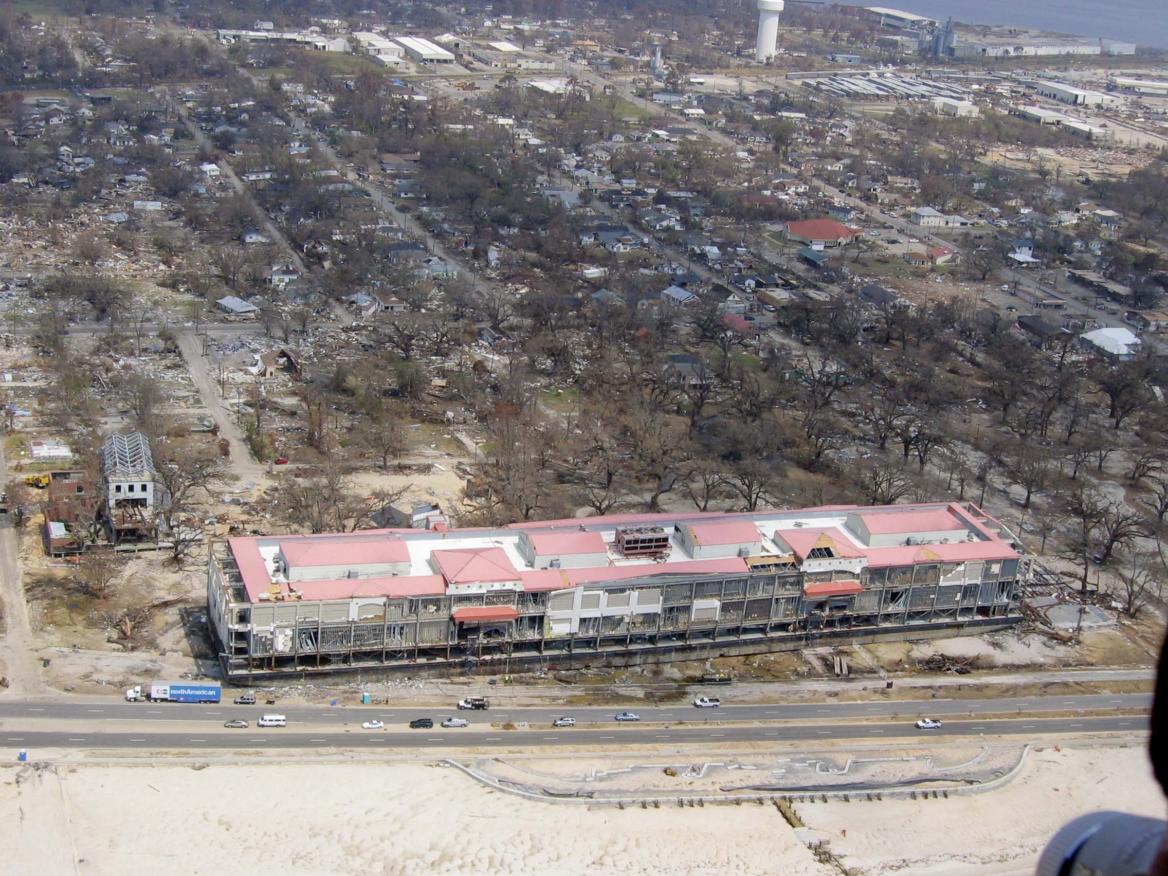 Helicopter view of Biloxi, Mississippi after Hurricane Katrina. In foreground is huge barge, formerly docked and anchored off shore, which housed the Grand Casino Biloxi.